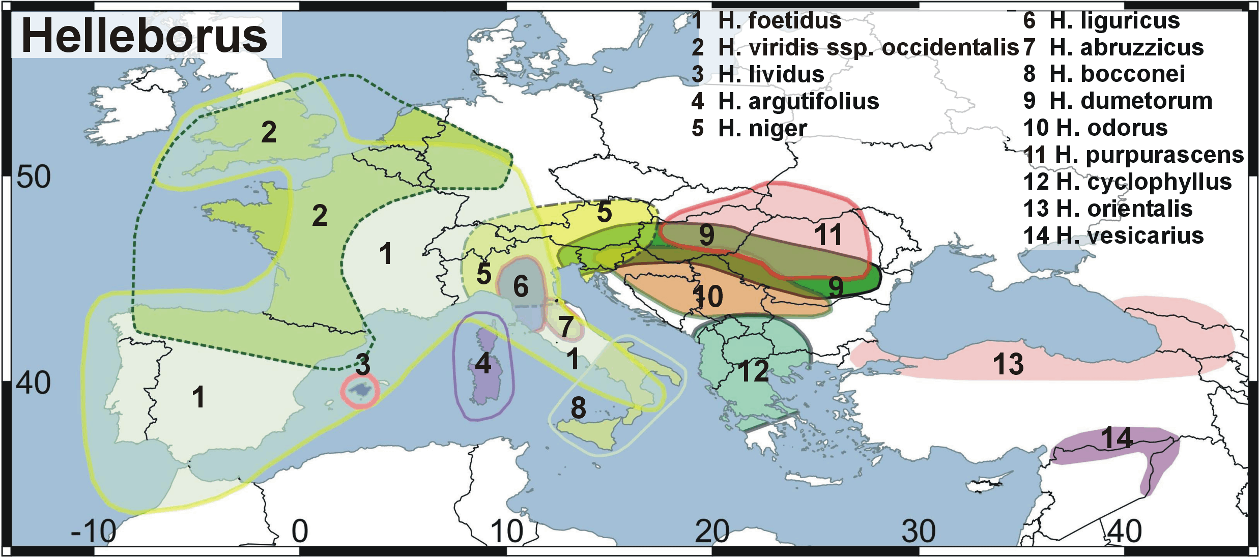 Sources: KLAUS WERNER and FRIEDRICH EBEL; Zur Lebensgeschichte der Gattung Helleborus L. (Ranunculaceae);Flora (1994) 189, p.97-130 Walter K. Rottensteiner; Attempt of a morphological differentia tion of Helleborus species in the Northwestern Balkans; Modern Phytomorphology 9 (Suppl.): 17–33, 2016